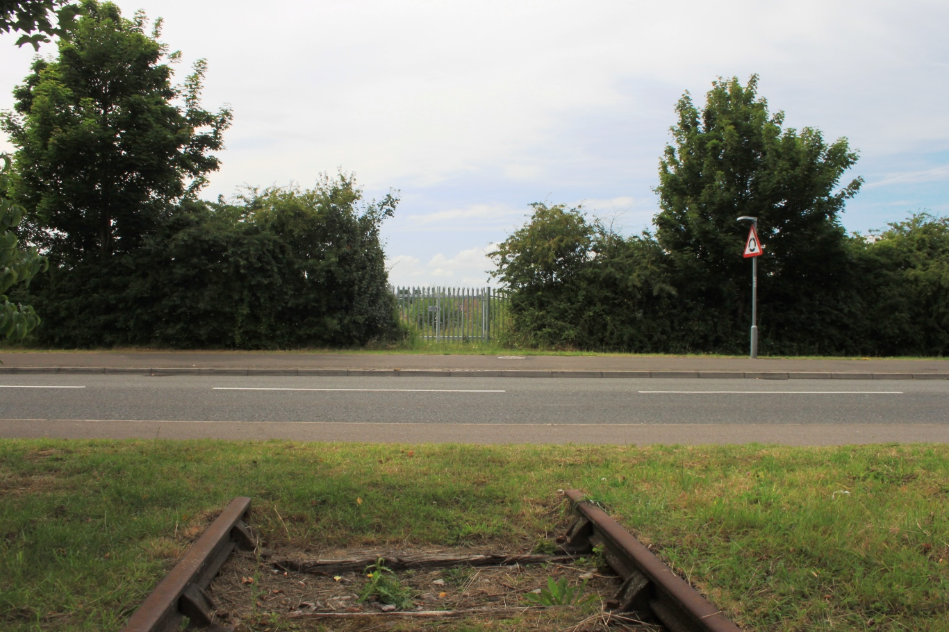 Since the last goods train rolled into Portishead in 1981 a new road has been built to the Port Marine housing development. Plans are now being made to reopen the line for passenger trains so a new station will be built (here, behind the camera) to avoid a level crossing. The trackbed beyond the road will be used as a car park.